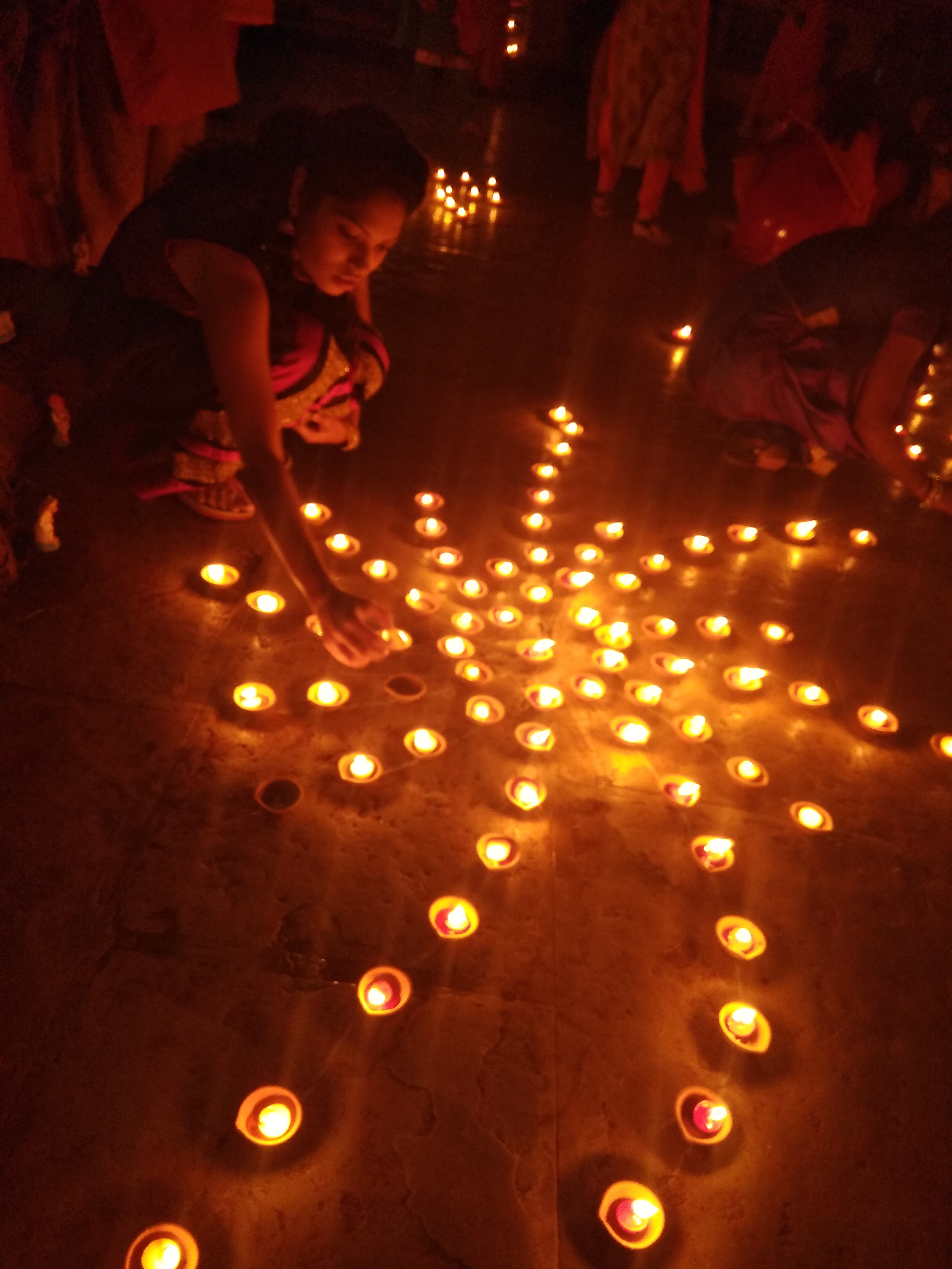 Diya festival in pune